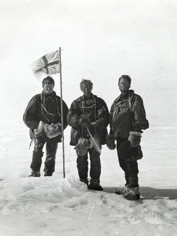 The northern party at the south magnetic pole; from left - Dr. Mackay, Professor David, Douglas Mawson